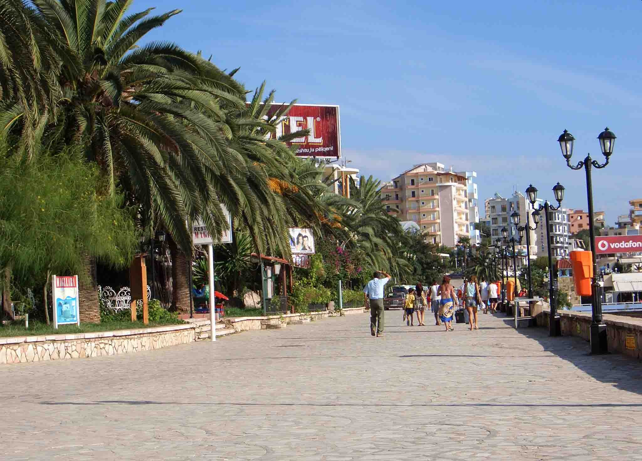 Sarandë, Albania: shore promenade